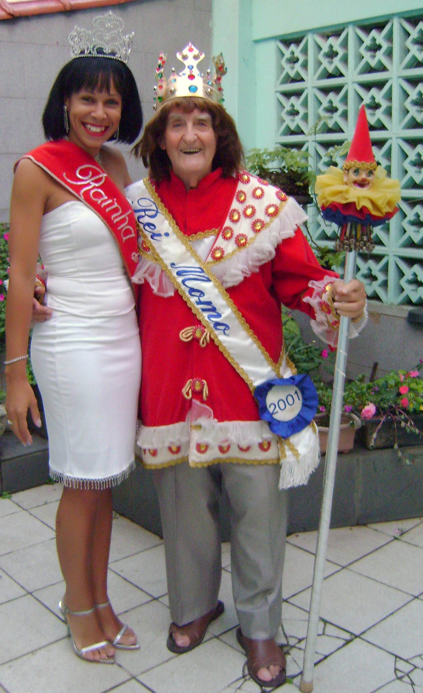 King Momo Waldemar and Queen Andrea (Carnival 1989), in his house's garden, today, 2008